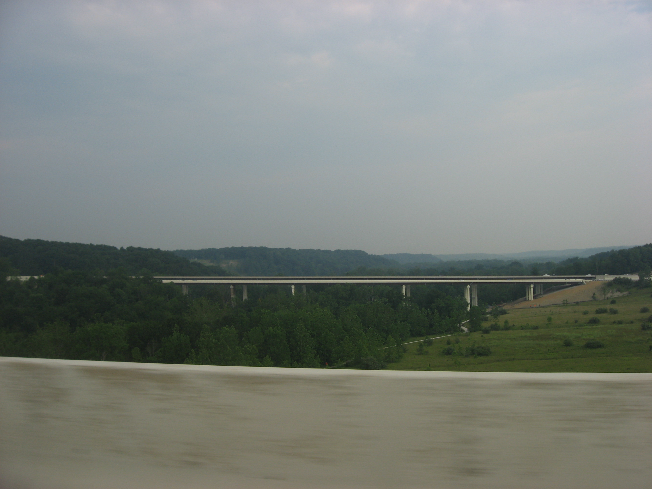 Bridge over the Cuyahoga River in northern Boston Township, Summit County, Ohio, United States. Picture taken looking northward from the bridge of Interstate 80 (the Ohio Turnpike) over the river, toward the southern end of Cuyahoga Valley National Park. Bridge in distance is that of Interstate 271.